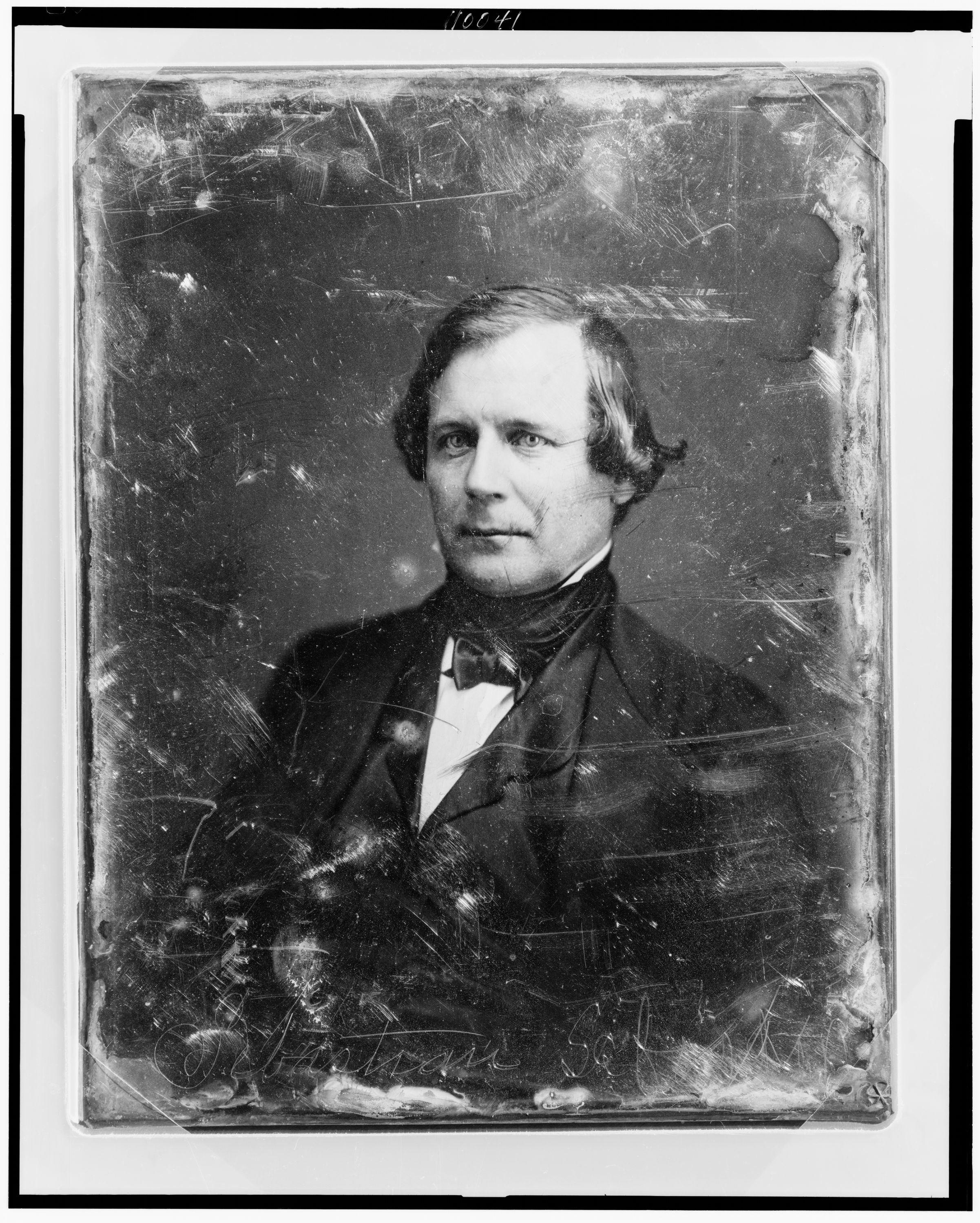 William King Sebastian, half-length portrait, three-quarters to the left, eyes front . Democratic Senator from Arkansas, 1848-1861.